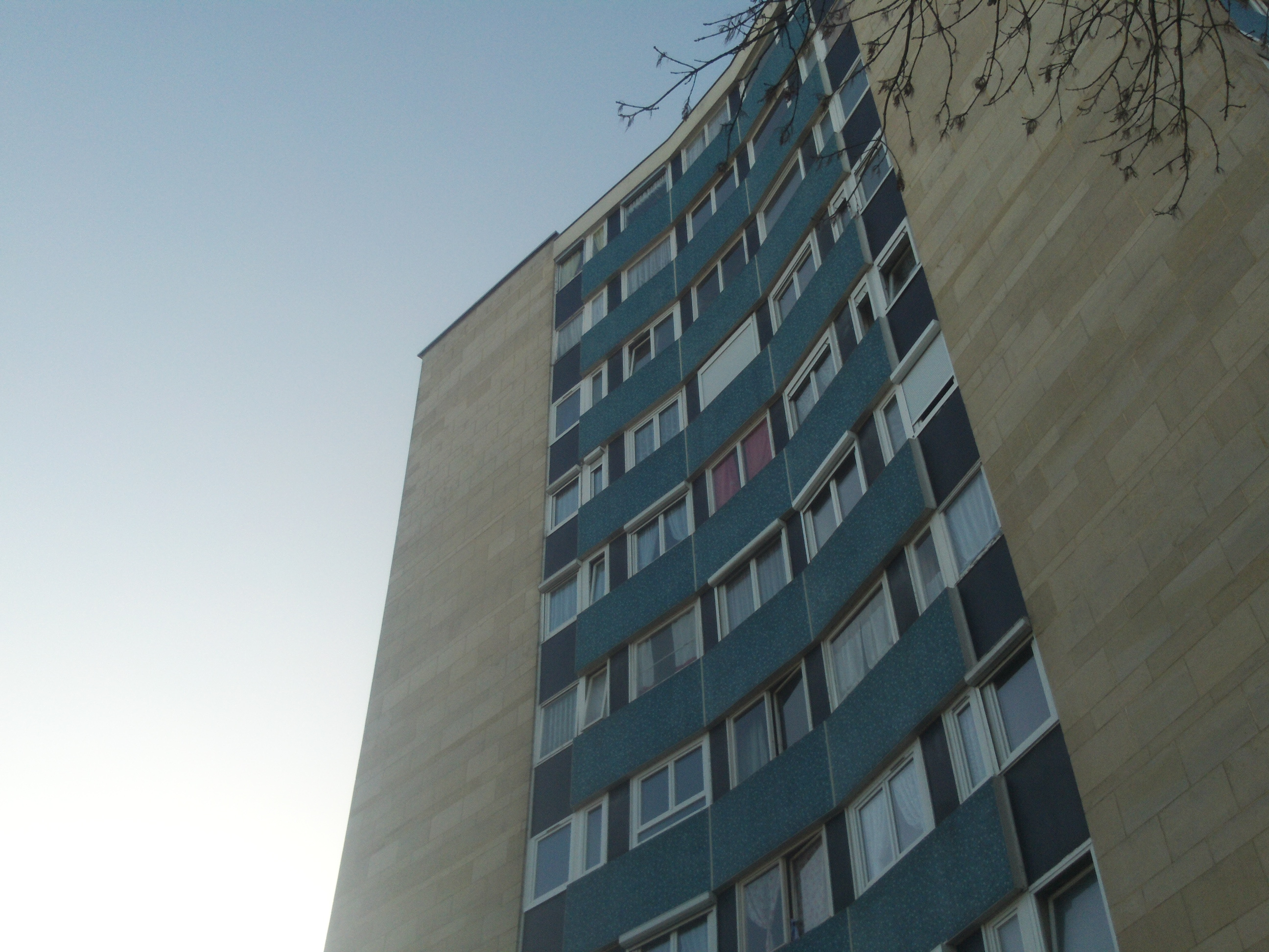 tours hebert